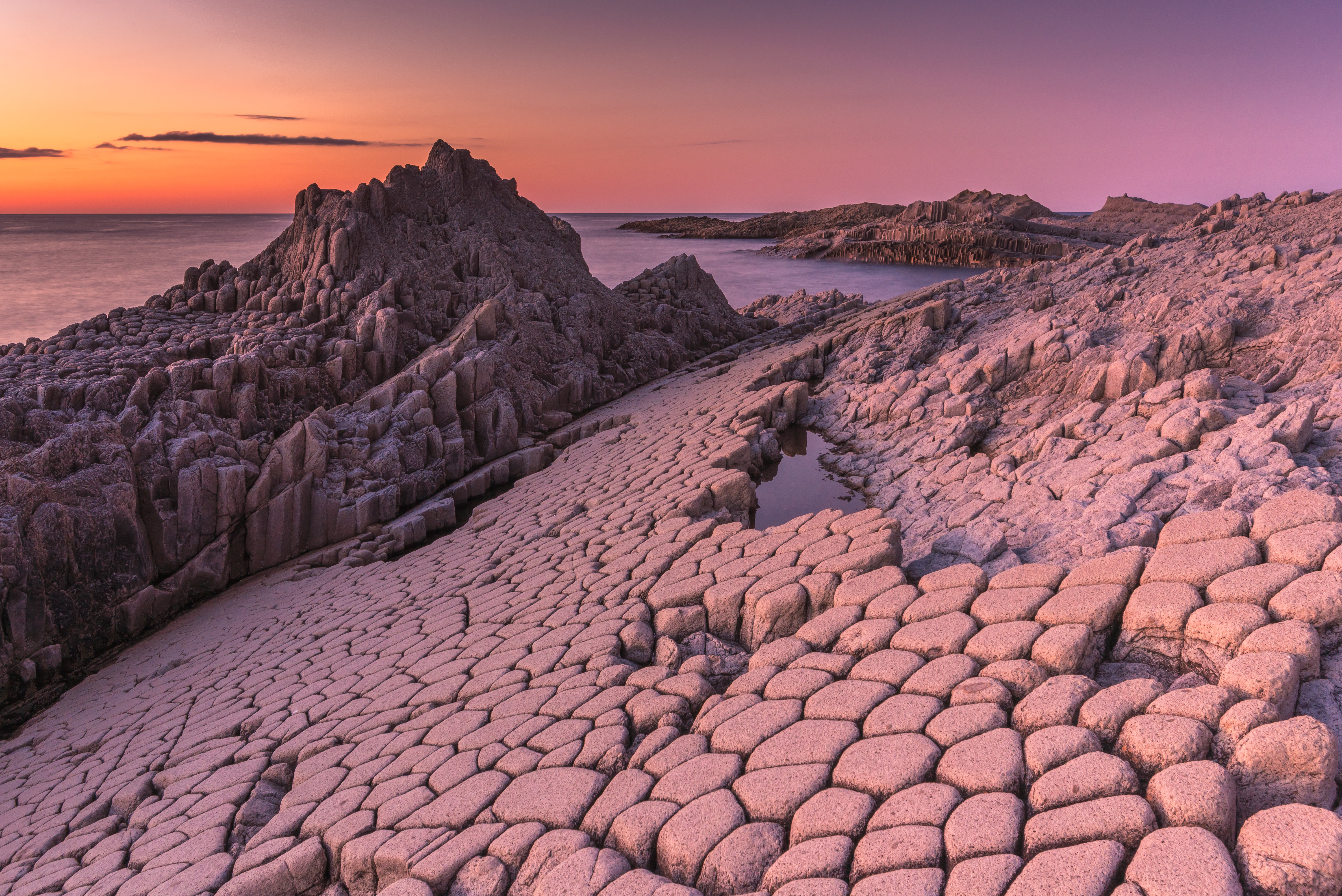 Columnar basalt after sunset at Cape Stolbchaty, Kunashir Island, Kurils Nature Reserve, Russia